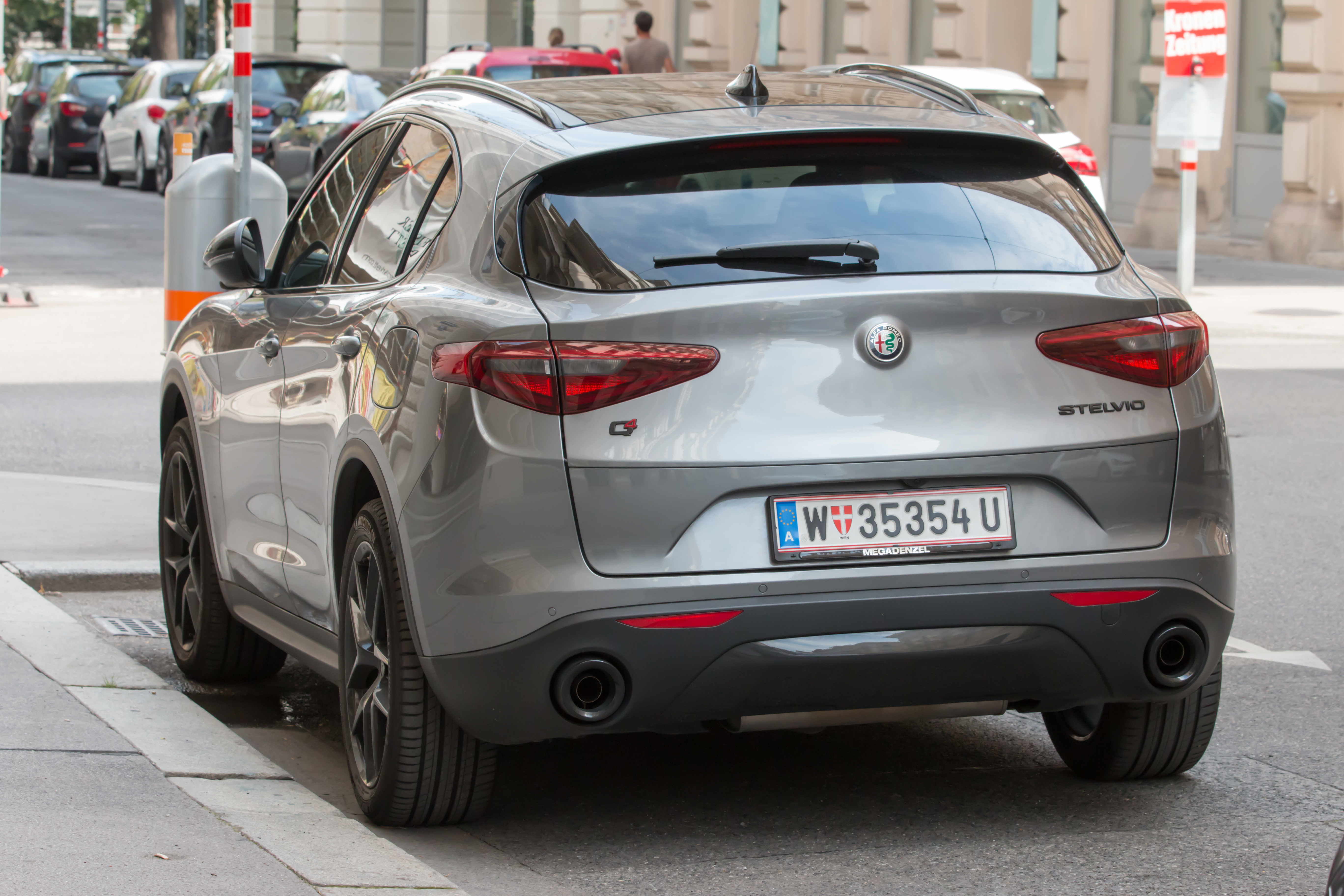 Alfa Romeo Stelvio